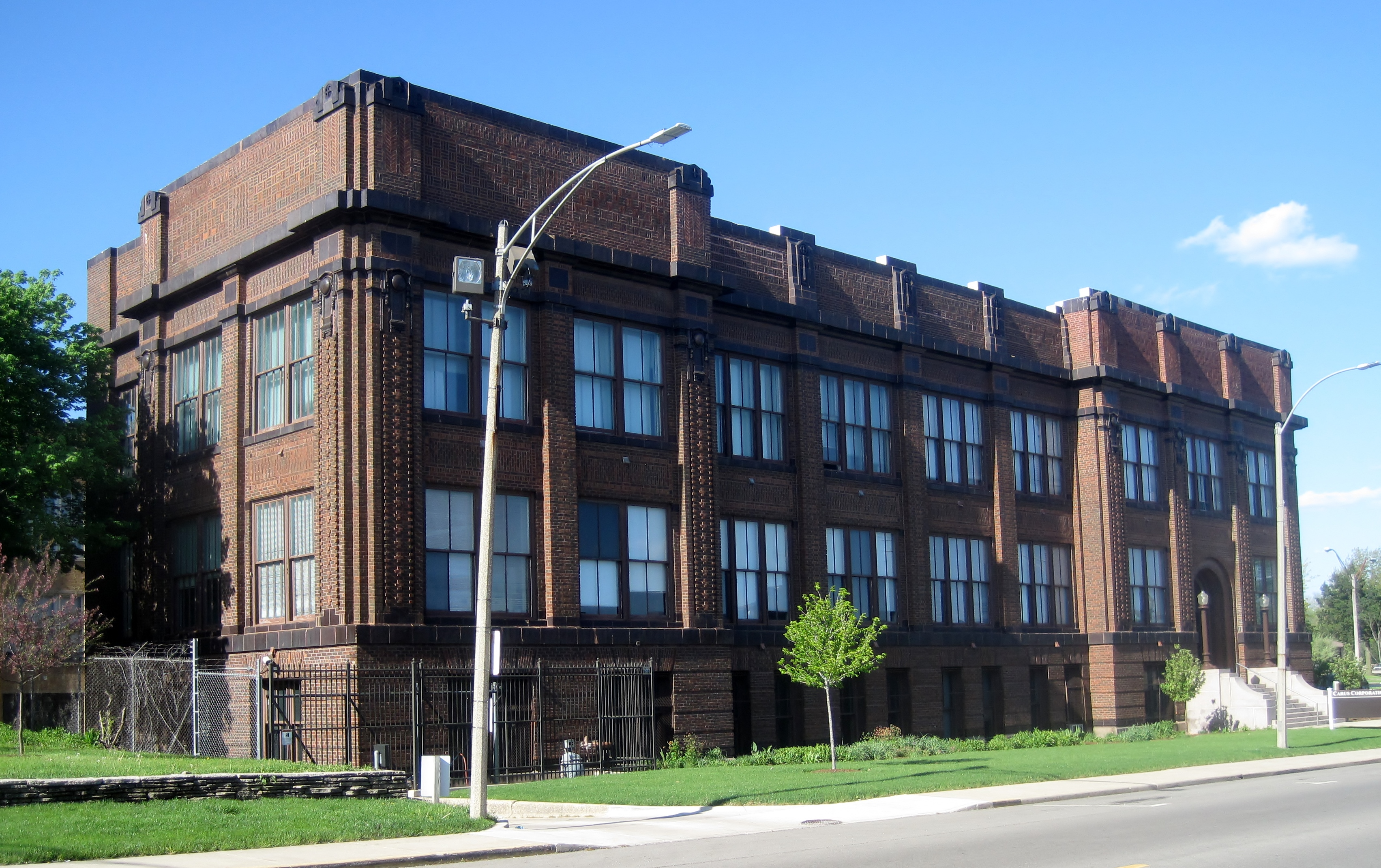 Westclox Administration Building in the Westclox Manufacturing Plant Historic District, Peru, IL (originally c. 1885, major expansion c. 1920). Westclox was founded as the United Clock Company in 1885 by Charles Stahlberg. Stalberg and other founders came to Peru from Waterbury, Connecticut. Stahlberg had identified a technological innovation for watches and wanted to start his own brand to take advantage of it. However, shortly after its founding, the company went bankrupt. In 1887, it was reorganized as the Western Clock Company. It again went bankrupt, and was purchased by F. W. Matthiessen in 1888 as the Western Clock Manufacturing Company. The company finally hit its stride, and in 1908, it patented its most famous clock--the Big Ben. The design fused the case with the alarm bell, allowing faster manufacture. It was the first alarm clock sold nationally. The company's name was shortened back to the Western Clock Company in 1912. "Westclox" began appearing on the backs of alarm clocks in 1910, and became a popular nickname for the company. In 1916, the company officially adopted the name. The company was incorporated in 1912, and in 1931, it merged with the Seth Thomas Clock Company. The consolidated companies became a division of the General Time Corporation. Shortly before World War II, the company introduced a portable version of the alarm clock. During the war, they made aviation instrumentation and compasses for the Army. From 1942 to 1945, Westclox exclusively produced for the war effort. In 1959, they introduced the first electric alarm clock which was also the first to include a "snooze" function. Quartz movements were introduced in 1972. Operations ceased at the plant in 1980. Salton, Inc. acquired the rights to the name during a bankruptcy organization in 2001. The name was sold to NYL Holdings in 2007. A fire broke out at this factory on January 1, 2012, destroying over 25% of the factory. Two teenagers were charged with aggravated arson.